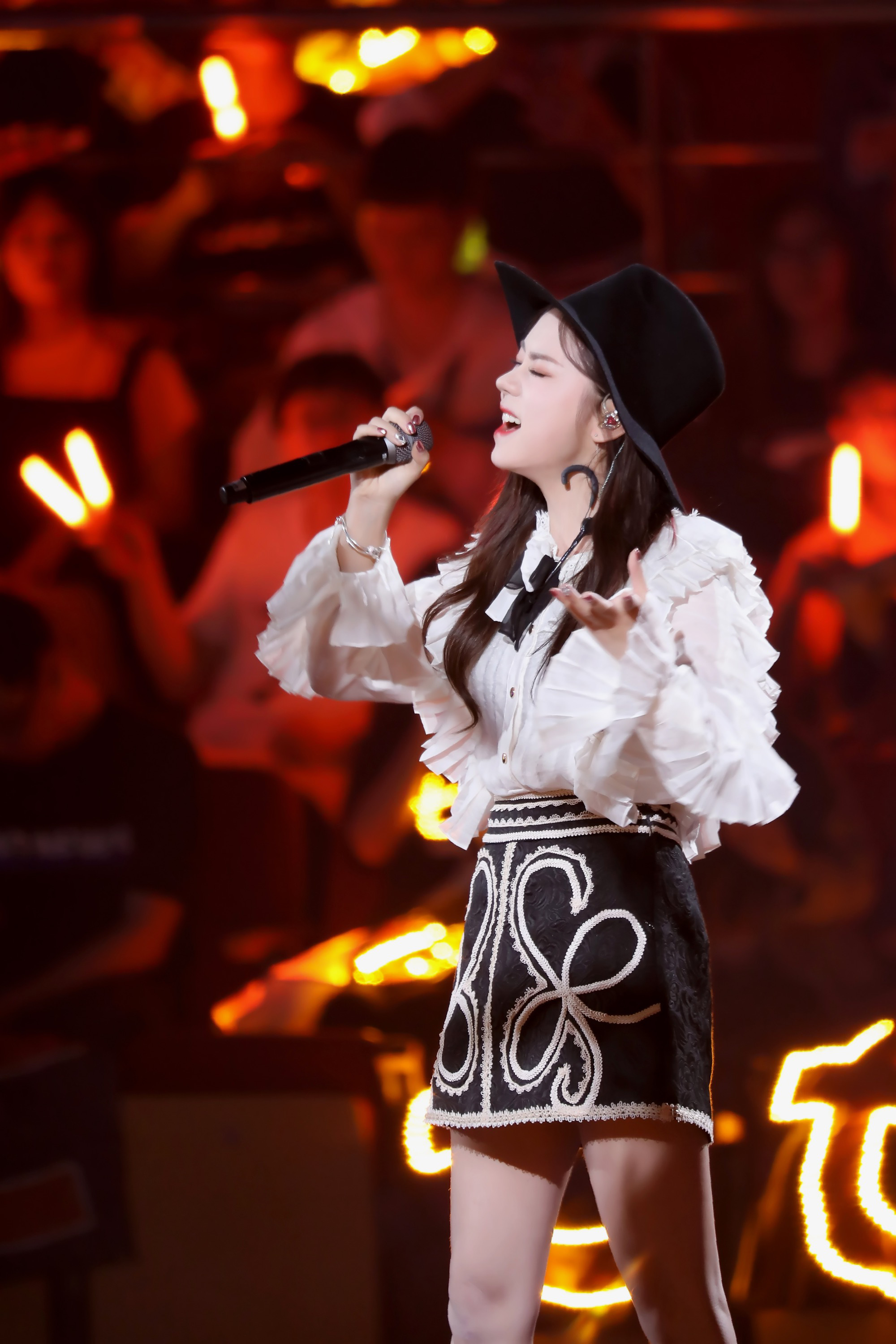 Zi Ning At the Guangzhou Rocket Girls Concert